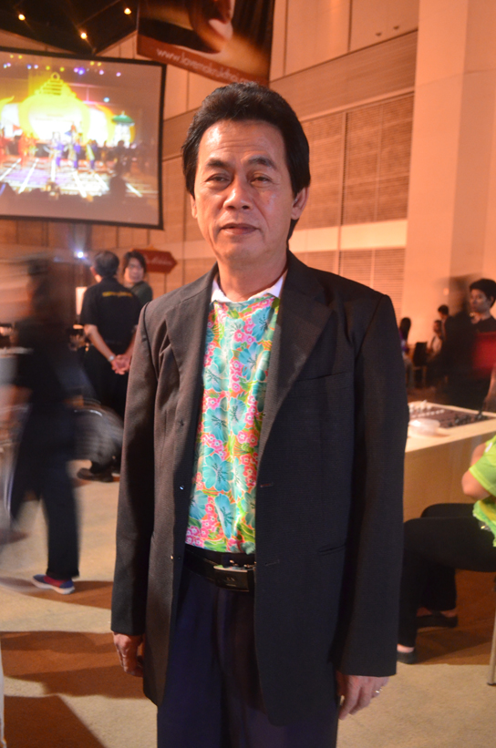 Suchart Chaivichit 2